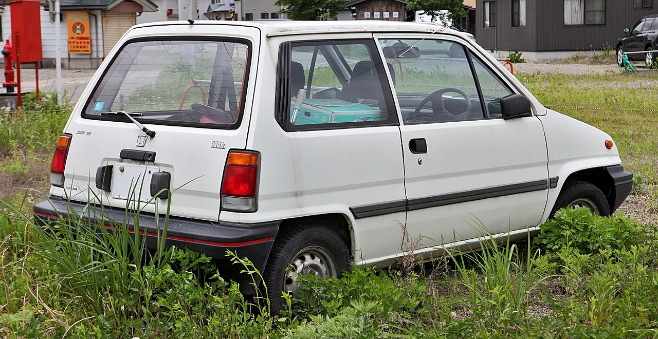 Honda City